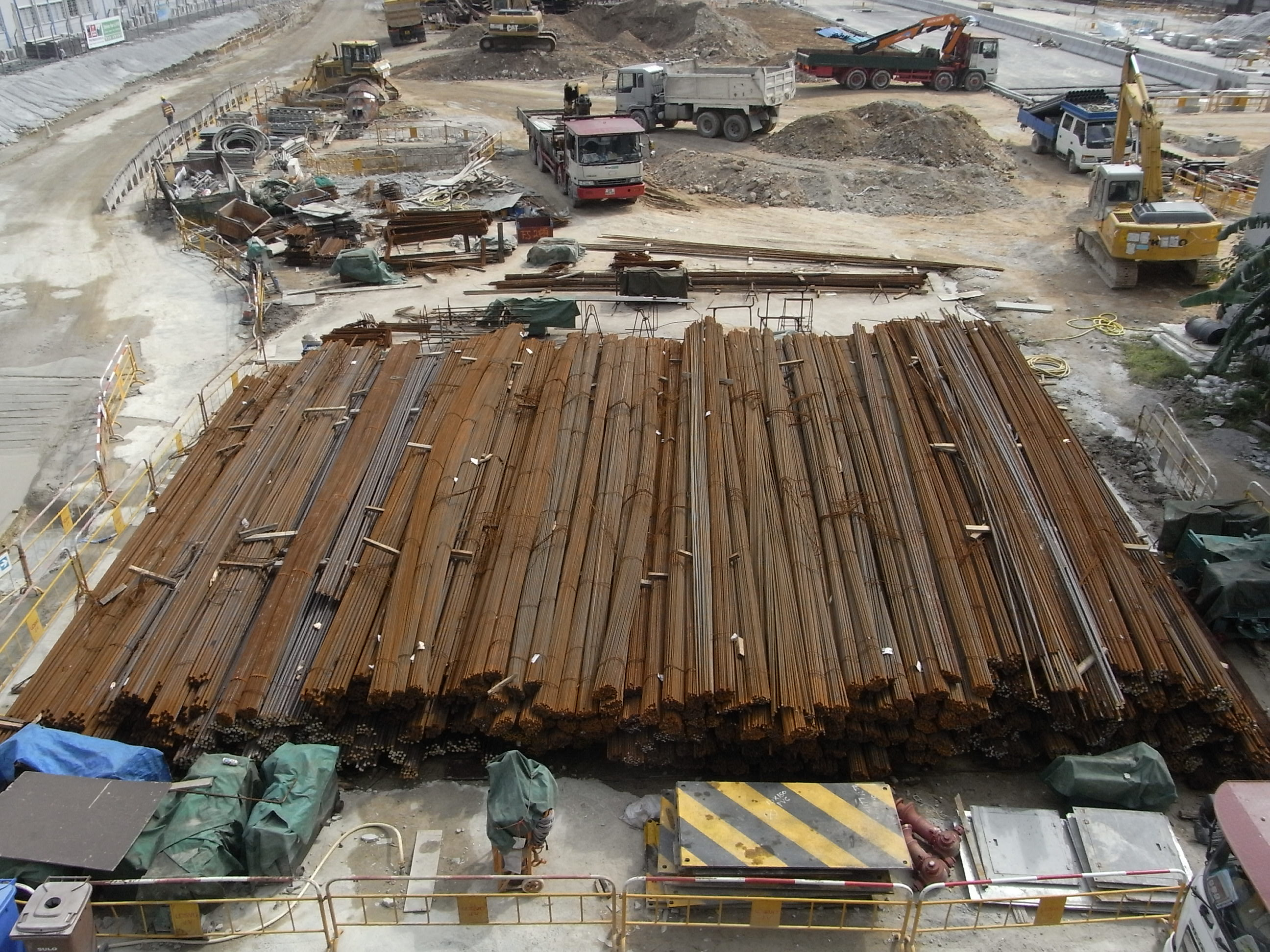 中環碼頭